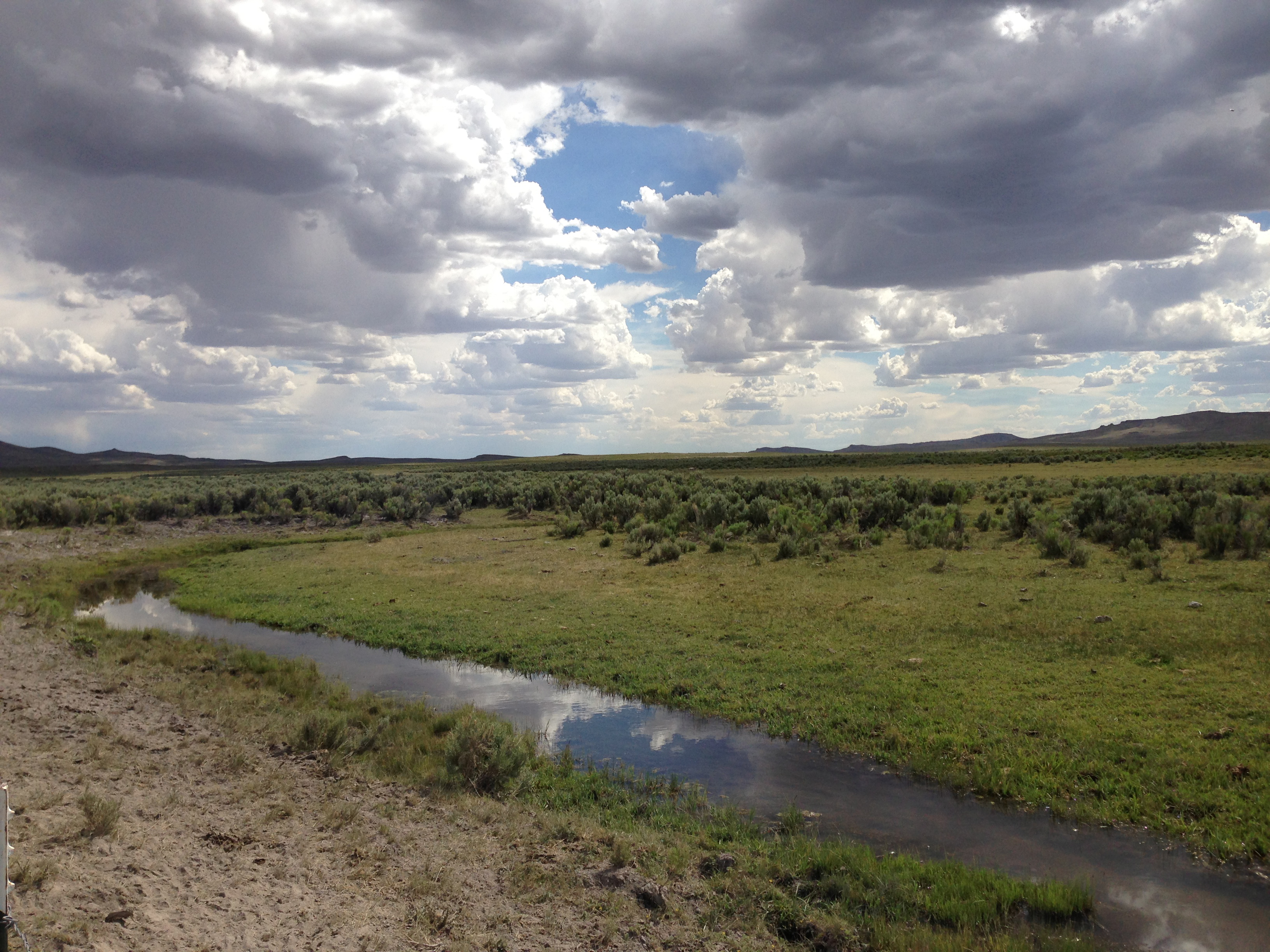 View south up the Bruneau River at Elko County Route 747 (Deeth-Charleston Road) about 38.6 miles north of Deeth, Nevada